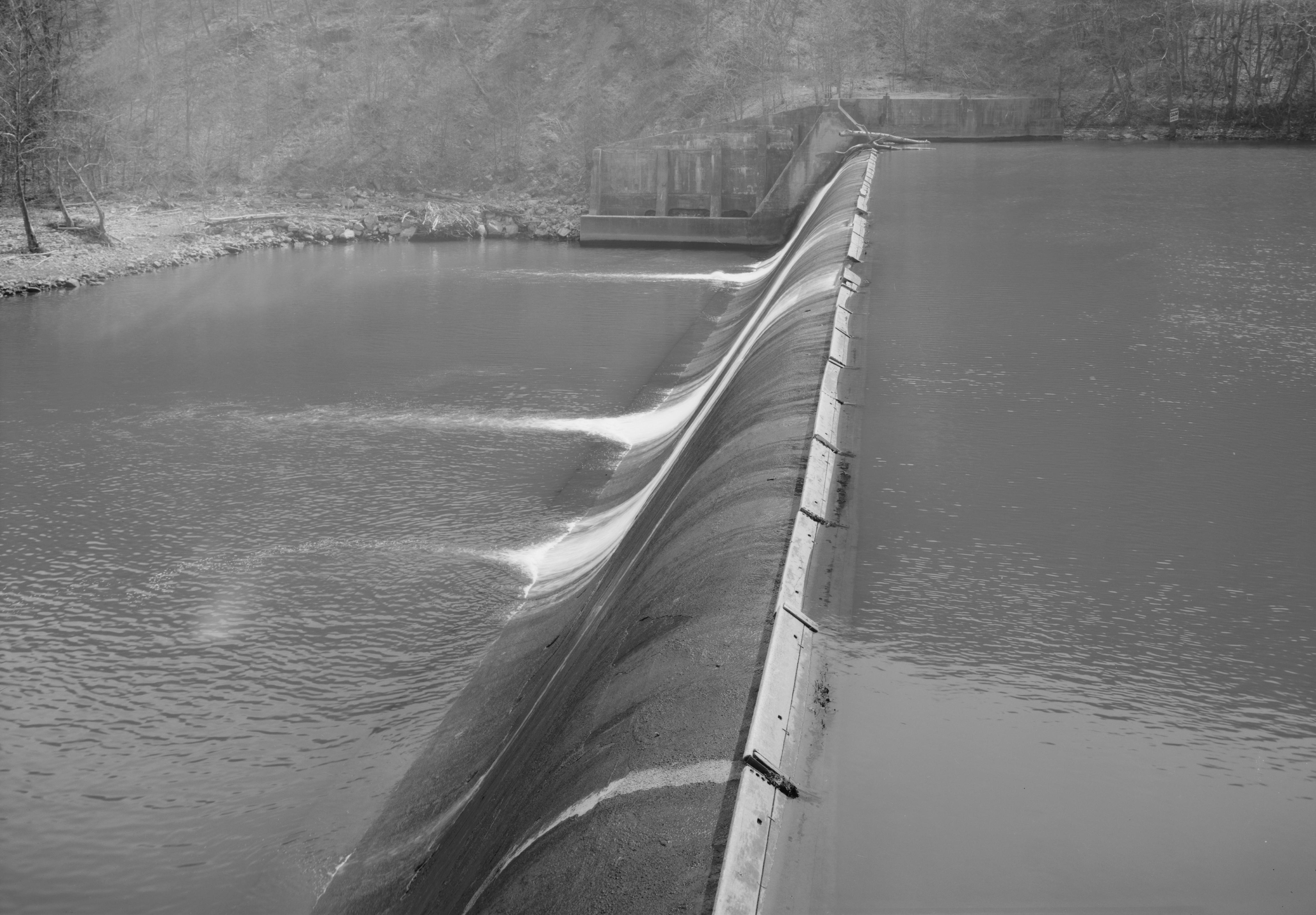 Southwest along the Warrior Ridge Dam, which impounds the Frankstown Branch Juniata River southwest of Huntingdon in Logan and Porter Townships of Huntingdon County, Pennsylvania, United States. Built in 1905, the dam and its hydroelectric plant are listed as a historic district on the National Register of Historic Places.